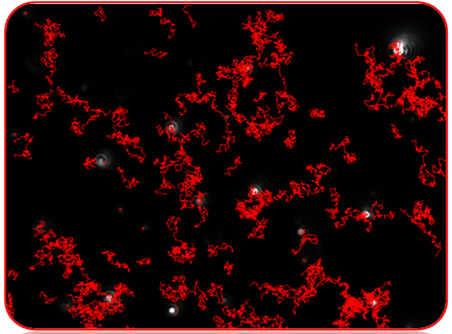 Typical image produced by NTA showing particles being tracked.